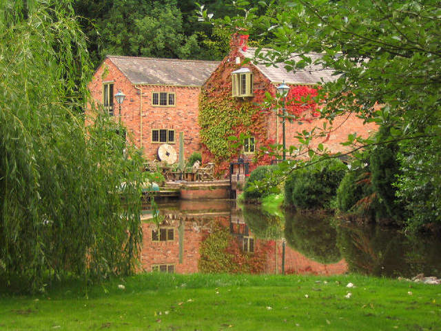 Dymock's Mill, Tallarn Green.